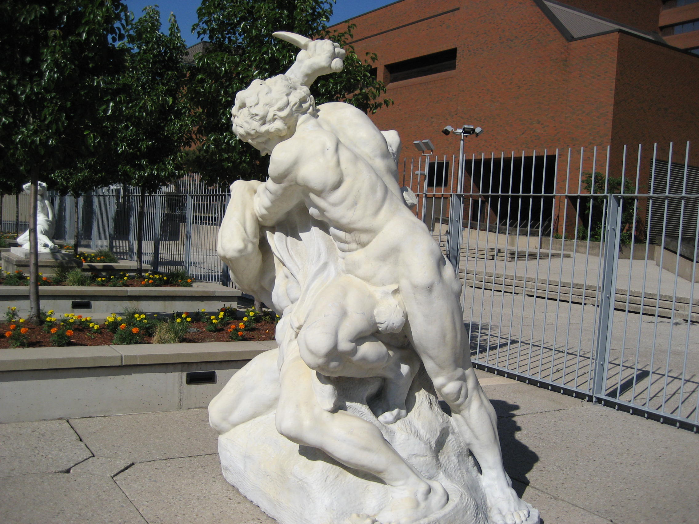 Hamilton Art Gallery, rooftop, downtown Hamilton